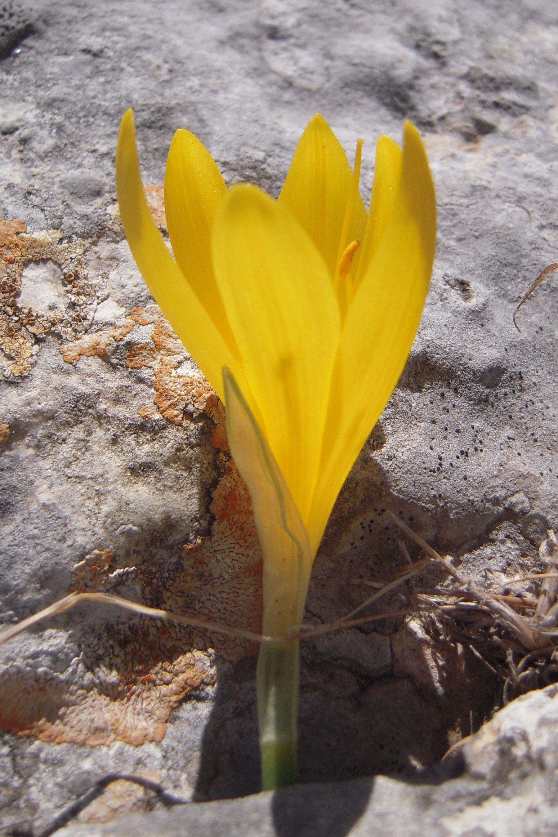 Sternbergia lutea (syn. Sternbergia sicula - det. user:RLJ)